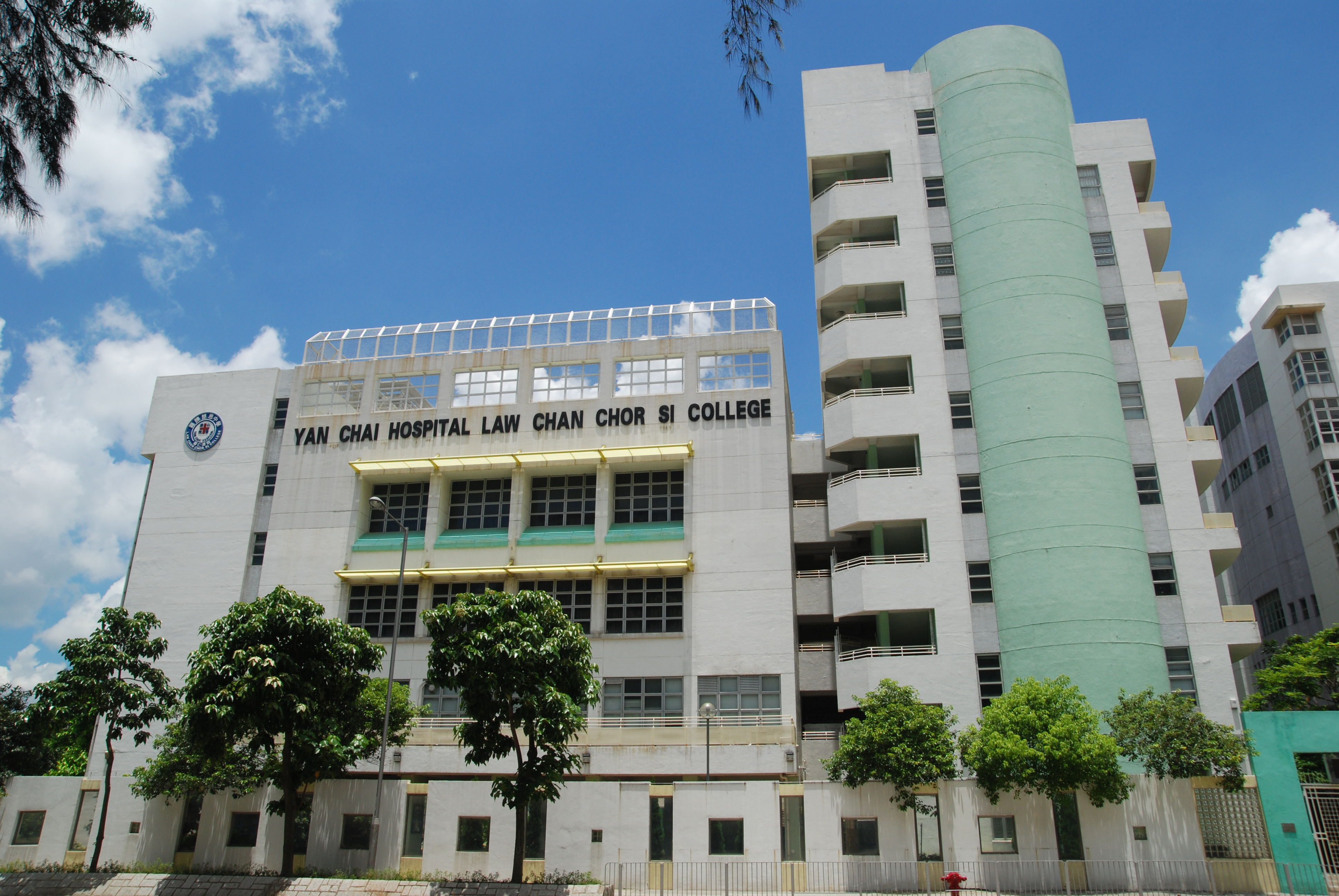 Yan Chai Hospital Law Chan Chor Si College photo taken at Wang Chiu Road, kowloon Bay